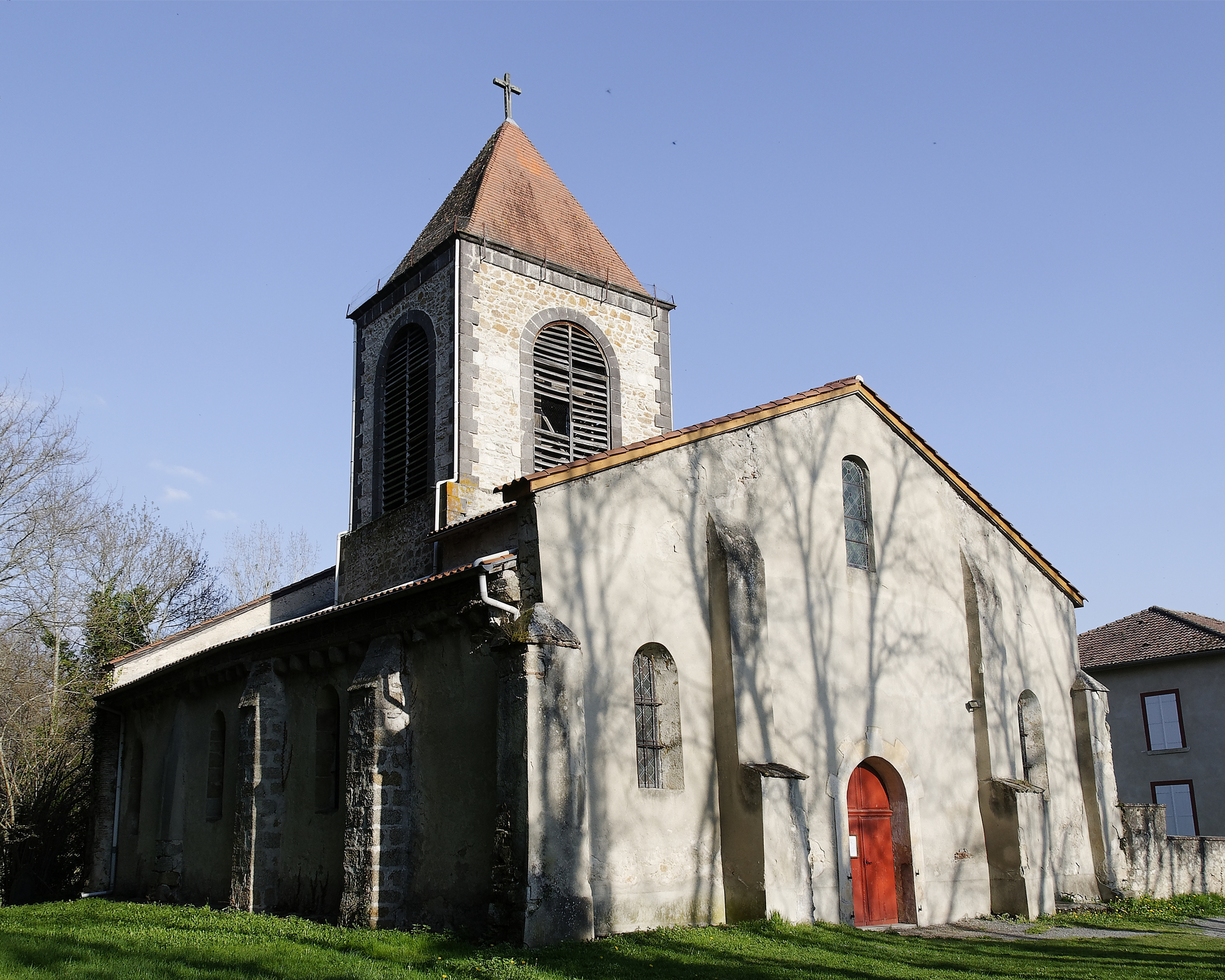 Parish church of Saint-Bonnet (12th century) in Paslières, Auvergne, France.